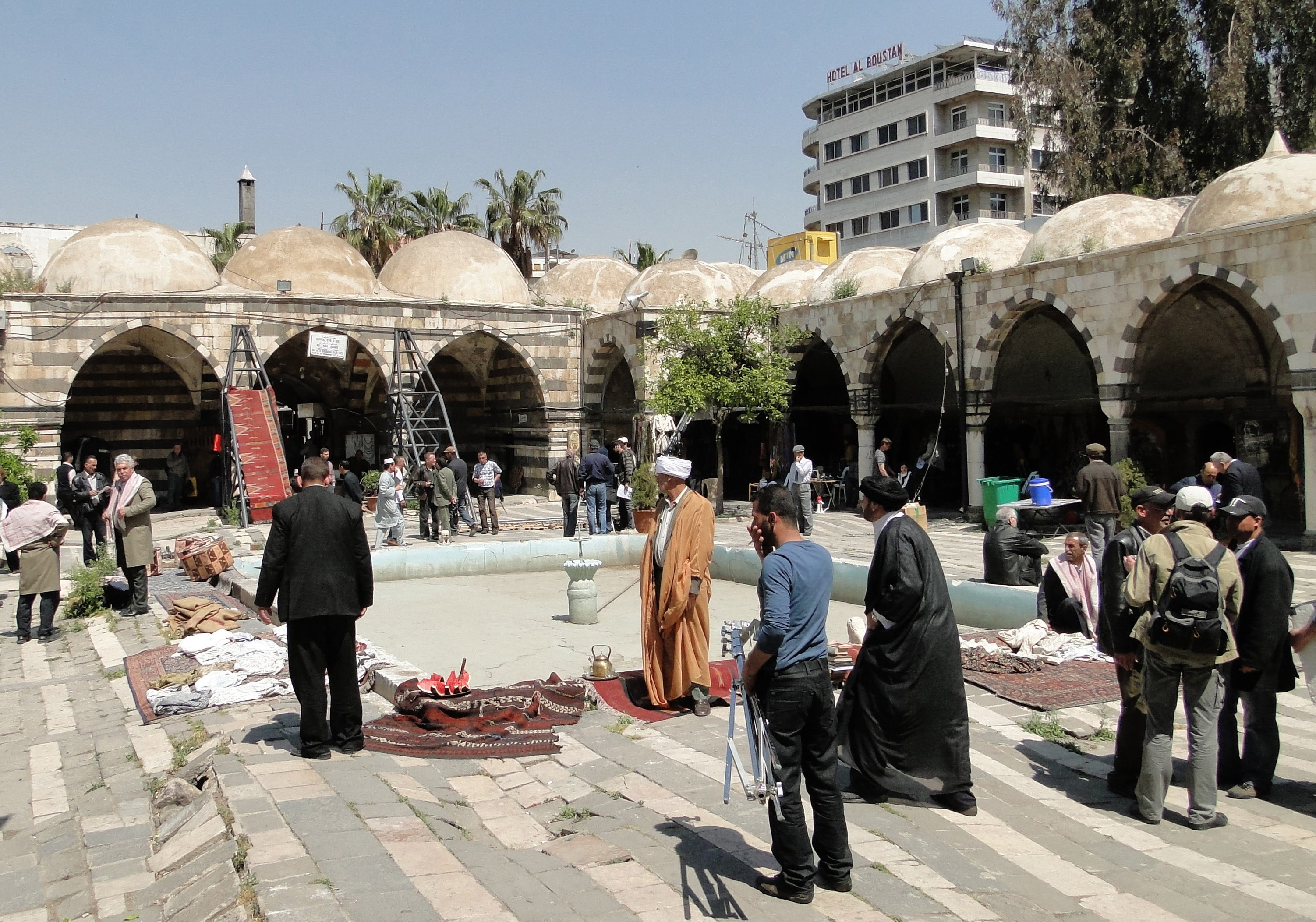 Buildings of the Selimiye Madrasa at the Takiyya as-Süleimaniyya complex in Damascus, Syria